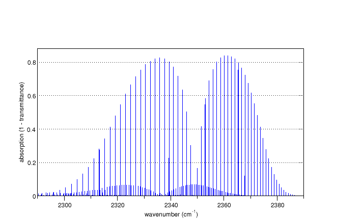 Simulated spectrum of CO2 asymmetric stretching vibration